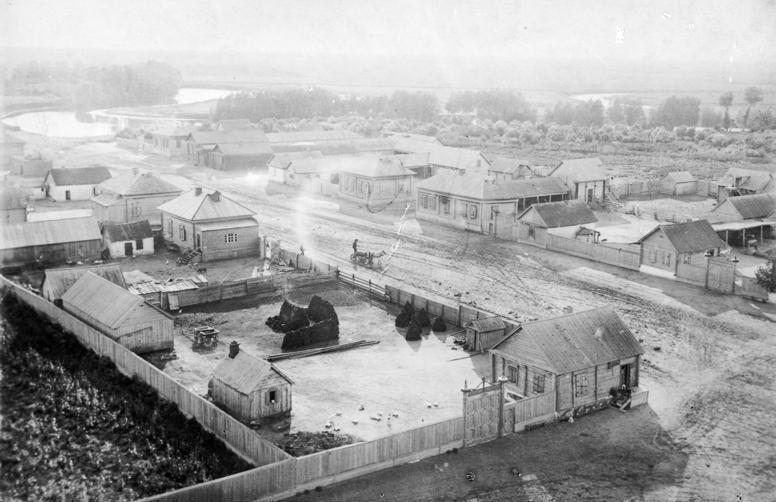 nowadays Novokamenka, Rovnoye (Rovensky) district, Saratov Oblast